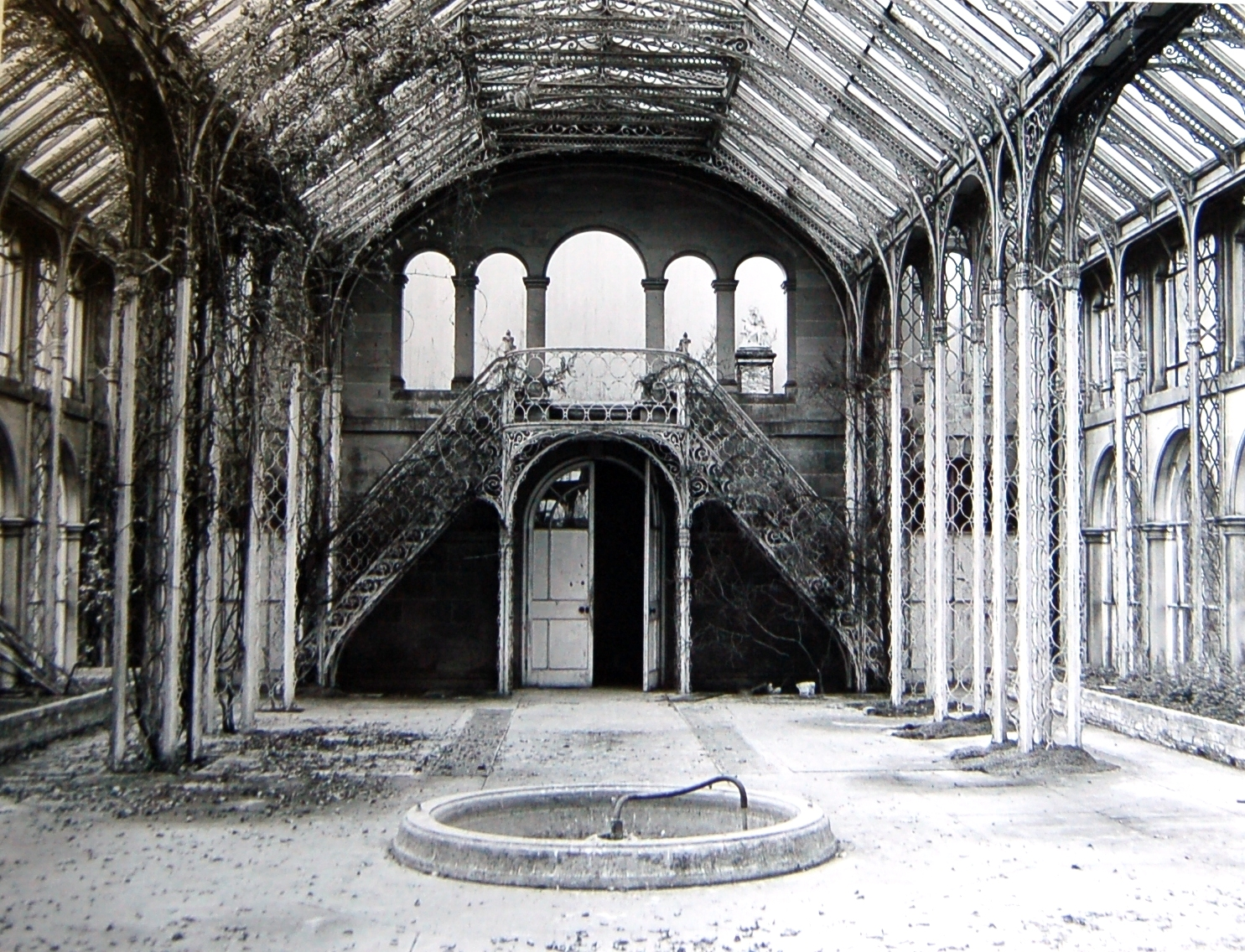 The house was designed by Henry Isaac Stevens for Francis Wright of the Butterley Iron Company and completed in 1849 it was demolished c1969. - Copy photo